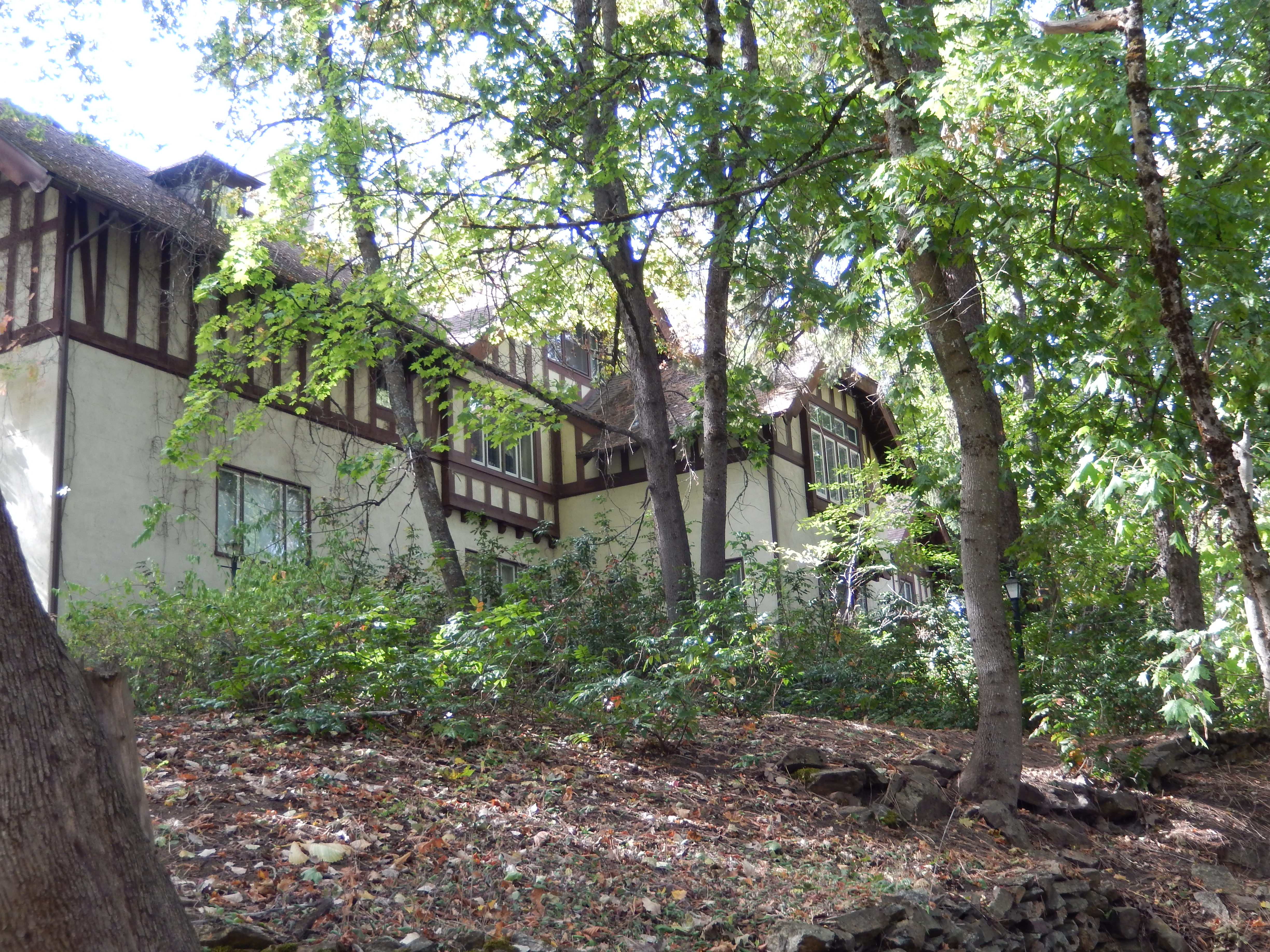 John P. and Stella Gray House in Saunder's Beach, Ceour d'Alene, Idaho